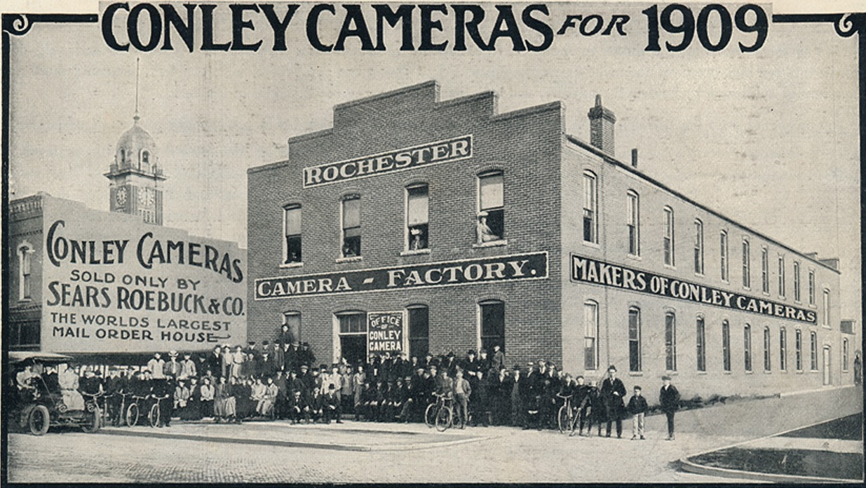 Advertisement from a 1909 Sears Roebuck catalog showing the Conley Camera Company Factory and its workers in Rochester, Minnesota, United States